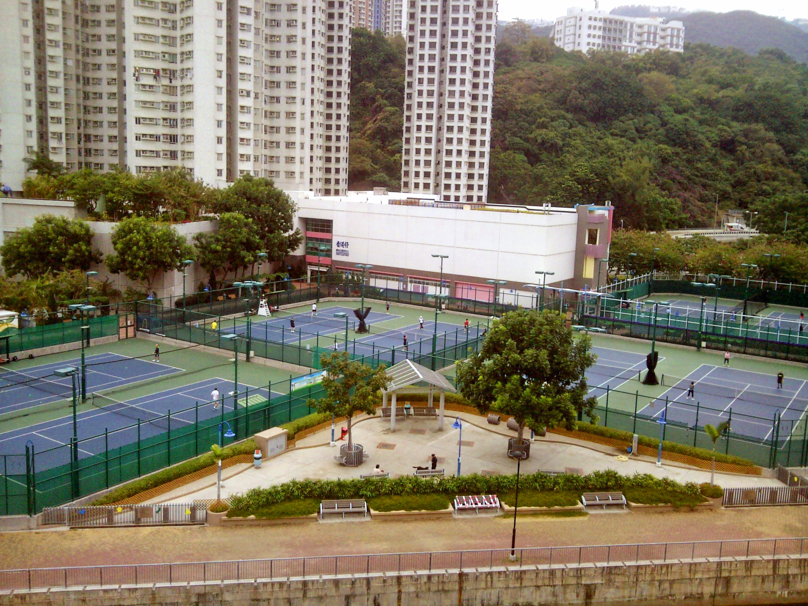 Aberdeen Tennis & Squash Centre Back Side